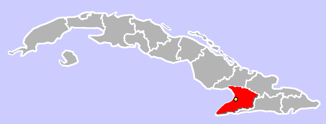 Location of Manzanillo, Cuba